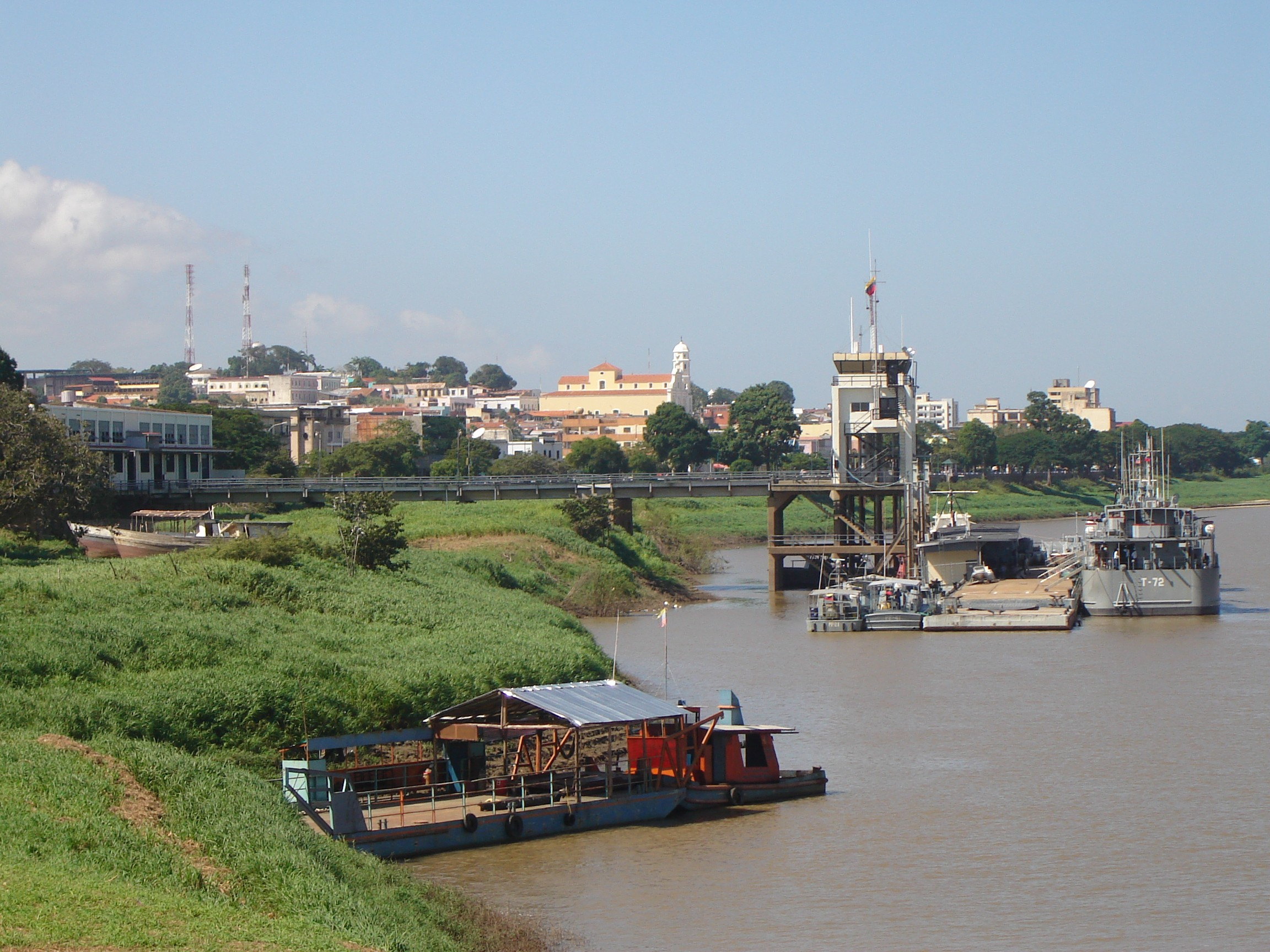 A view of Ciudad Bolívar from La Carioca market, i take it in December, 2006